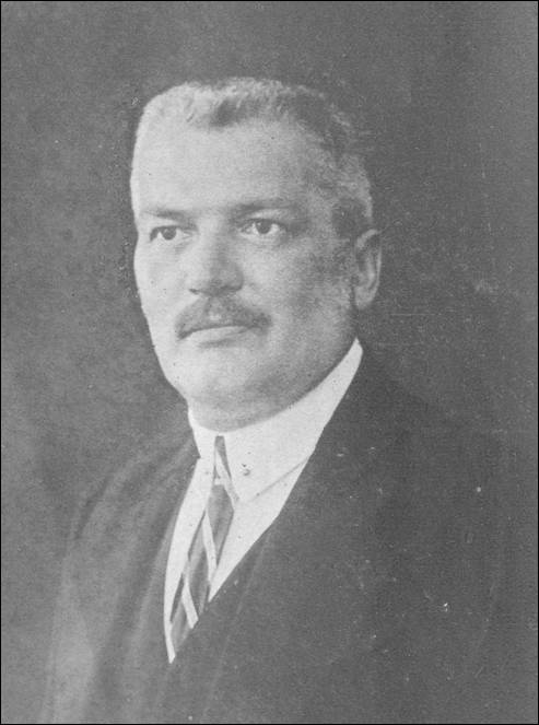 Alajos Gedeon PhD, Hungarian writer and school director